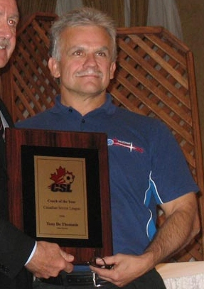 Tony De Thomasis at the 2006 CSL Awards Banquet.